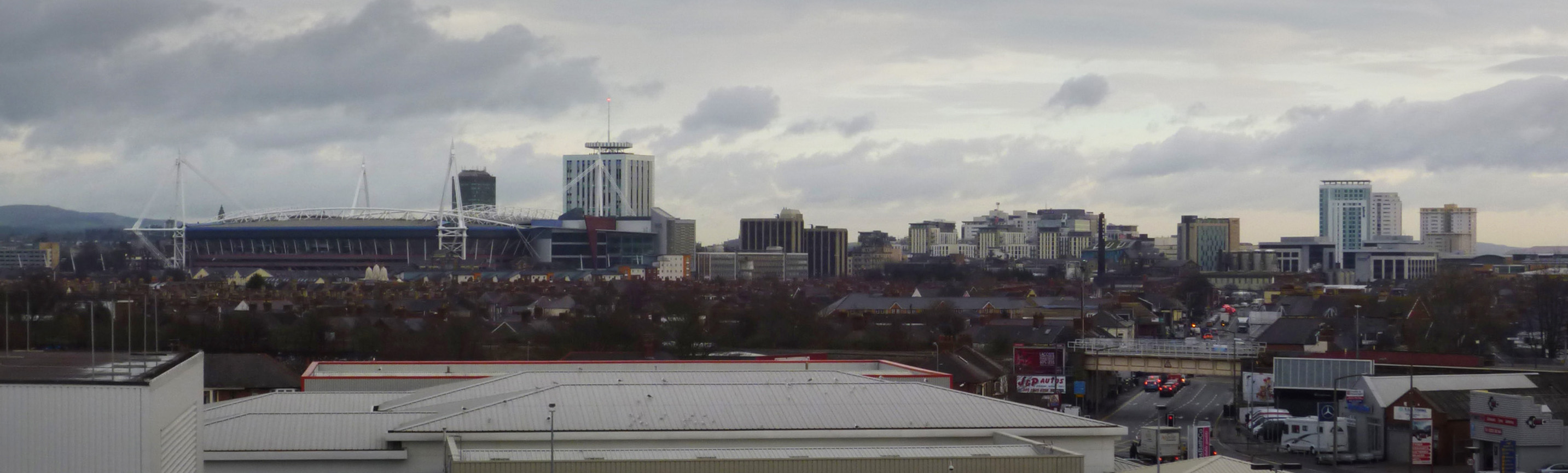 View of Cardiff city centre from the southwest